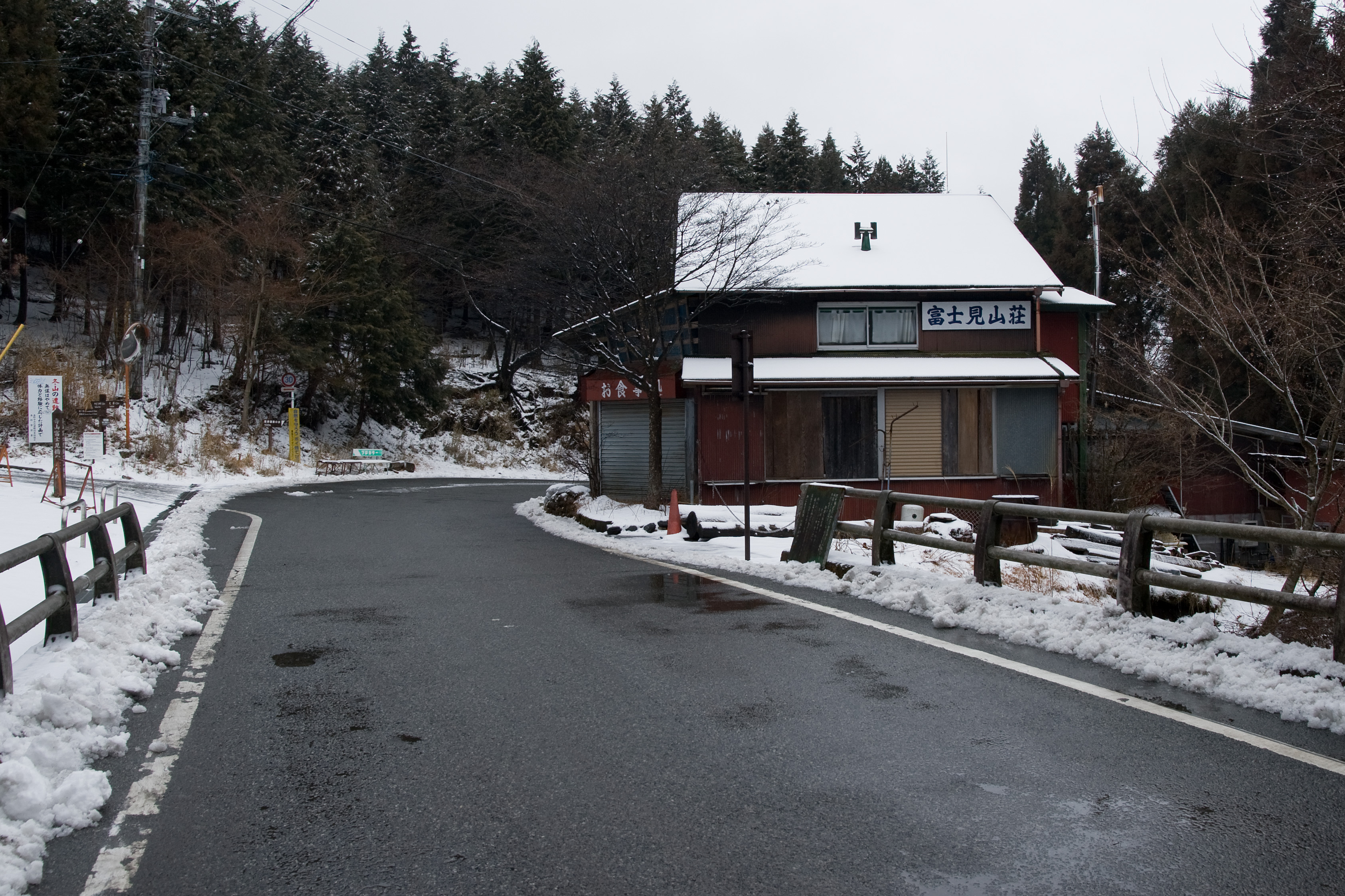 Fujimi Sanso hut in the Tanzawa Mountains, Kanagawa Prefecture, Japan